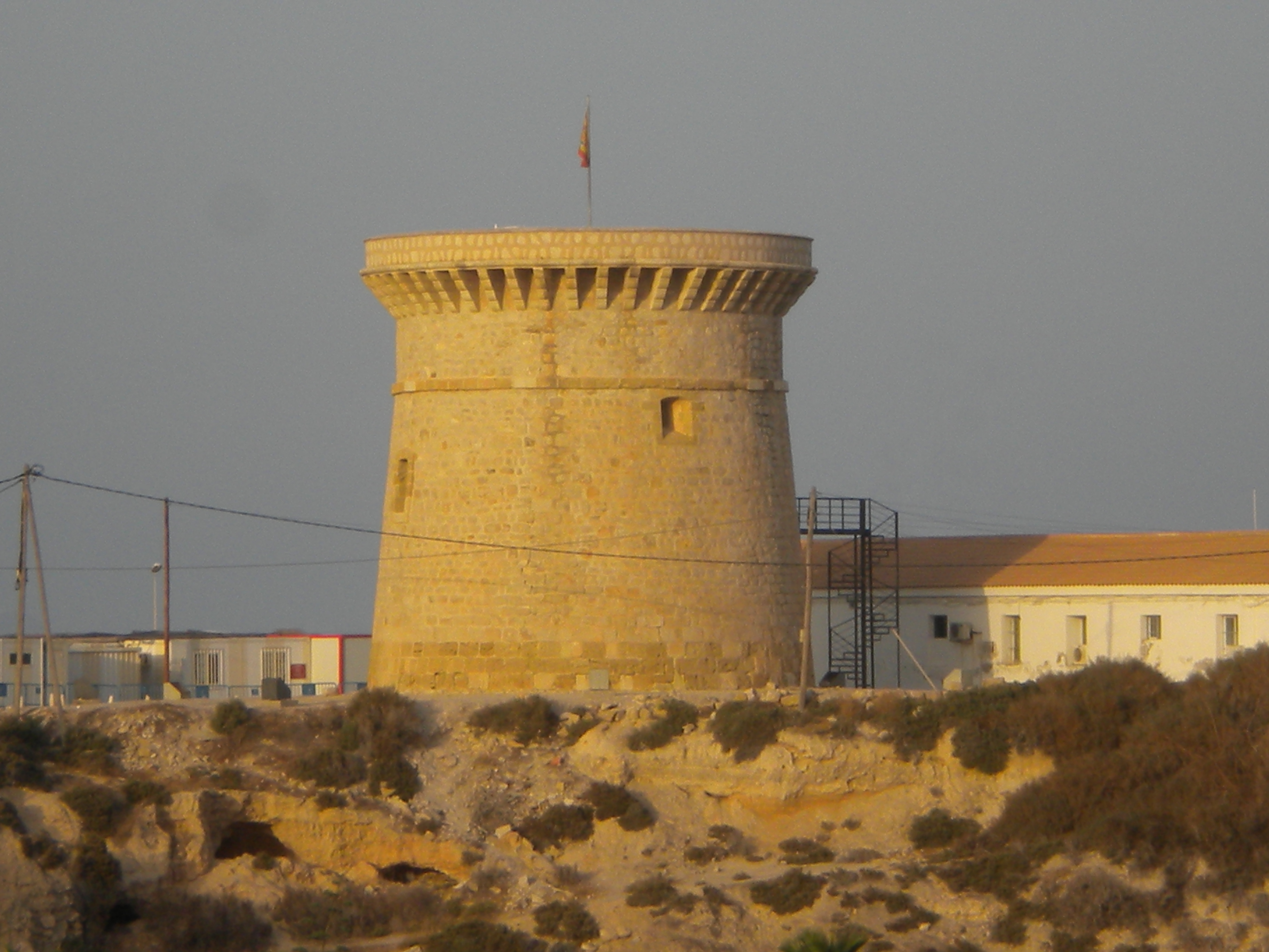 Coastal Watchtower in Campello (Alicante, Spain)